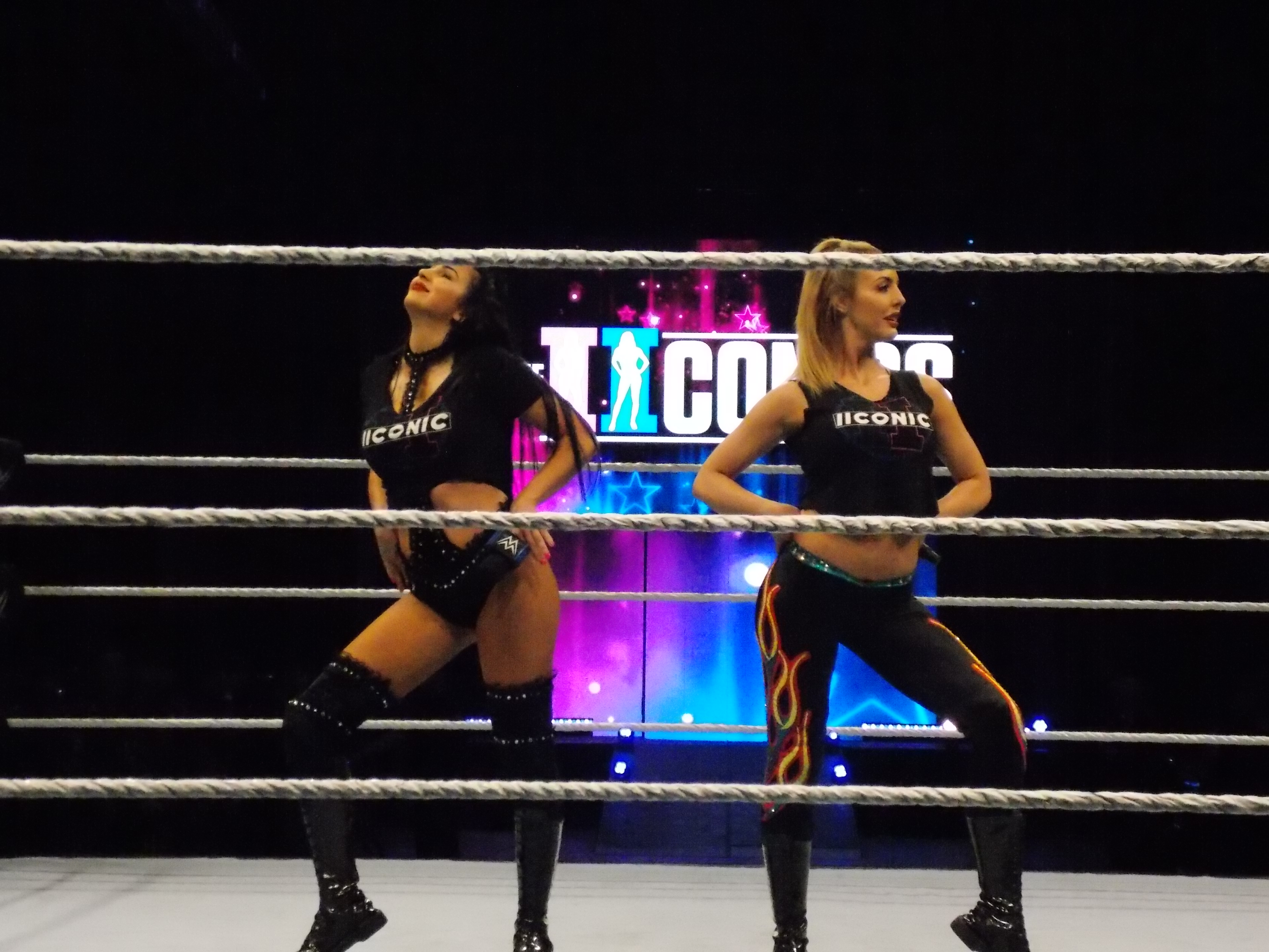 The IIconics, Billie Kay and Peyton Royce, at a WWE Live Event House Show in Omaha, Nebraska, USA on Sunday, August 18, 2019